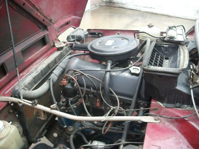 1991 Lada Niva engine running. I took it for a little driveway drive. I realized its a 4spd. I thought it was a 5spd but the 4spd is actually stronger.